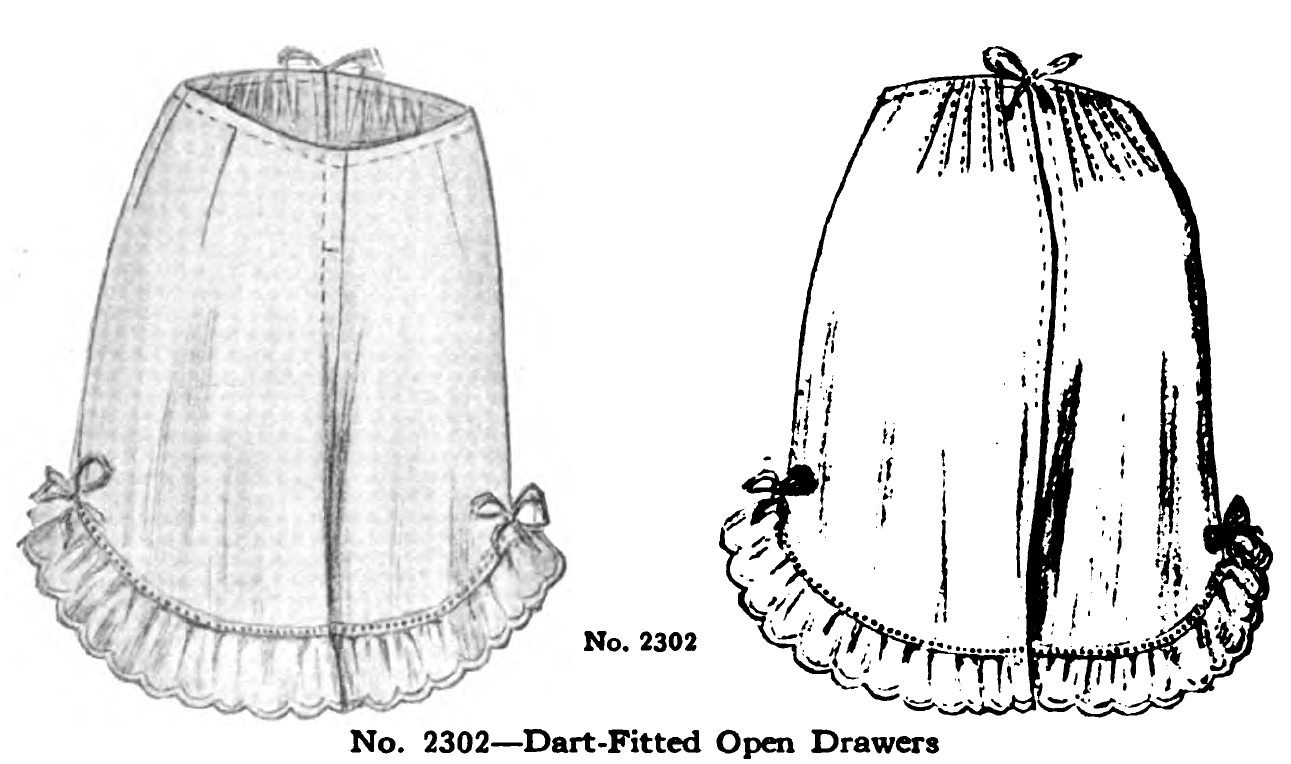 Woman's home companion, Volume 40 pg 70 June 1913 Caption: No. 2302--Dart-Fitted Open Drawers 22 to 36 waist. Material for 26-inch waist, four and one-half yards of twenty-two-inch, or two and one-half yards of thirty-six-inch. If embroidery is used for ruffles, five eights of an inch of a yard less of twenty-two-inch material and three eights of a yard less of thirty-six-inch material is required, and three yards of embroidery is needed. Price of this pattern, ten cents.